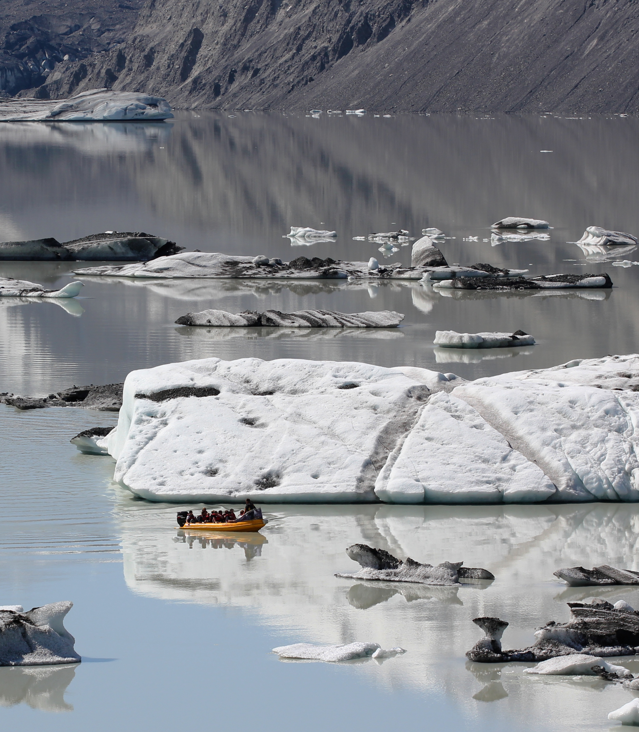 Tour boat among the icebergs on Tasman Lake, a proglacial lake formed by the recent retreat of the New Zealand's Tasman Glacier. A small part of the rock-covered glacier is visible at upper left.